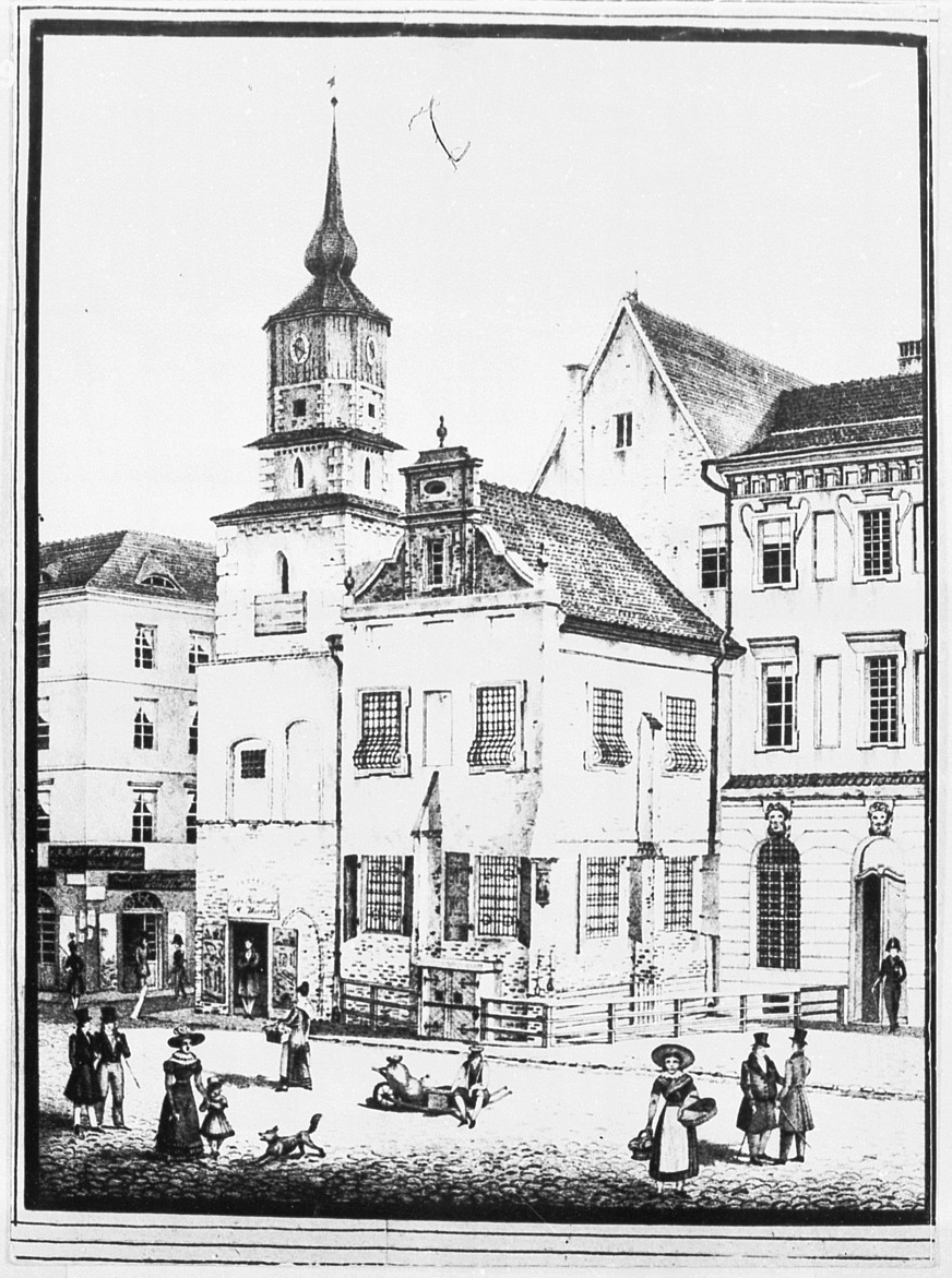 The Old Town Hall of Berlin